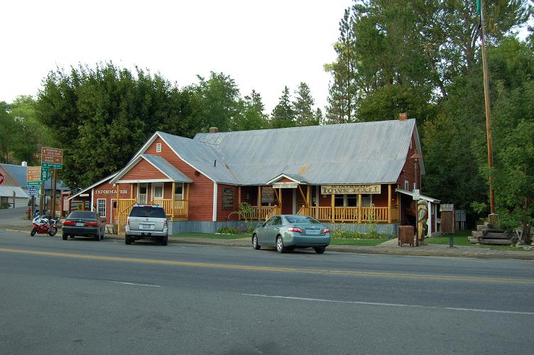 The town hall of Winthrop, Washington. Image is from a Canon D50 camera, and is reduced in size to 25% of original.